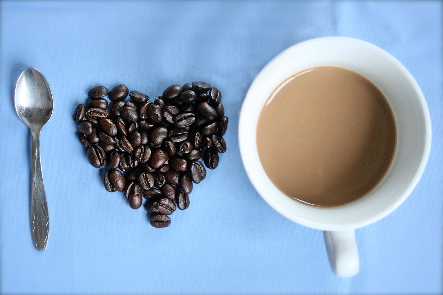 Example of a rebus: Spoon = the letter I; coffee beans arranged into the shape of a heart, signifying LOVE; and a cup of COFFEE. Original post: "One love I am sure of :)"